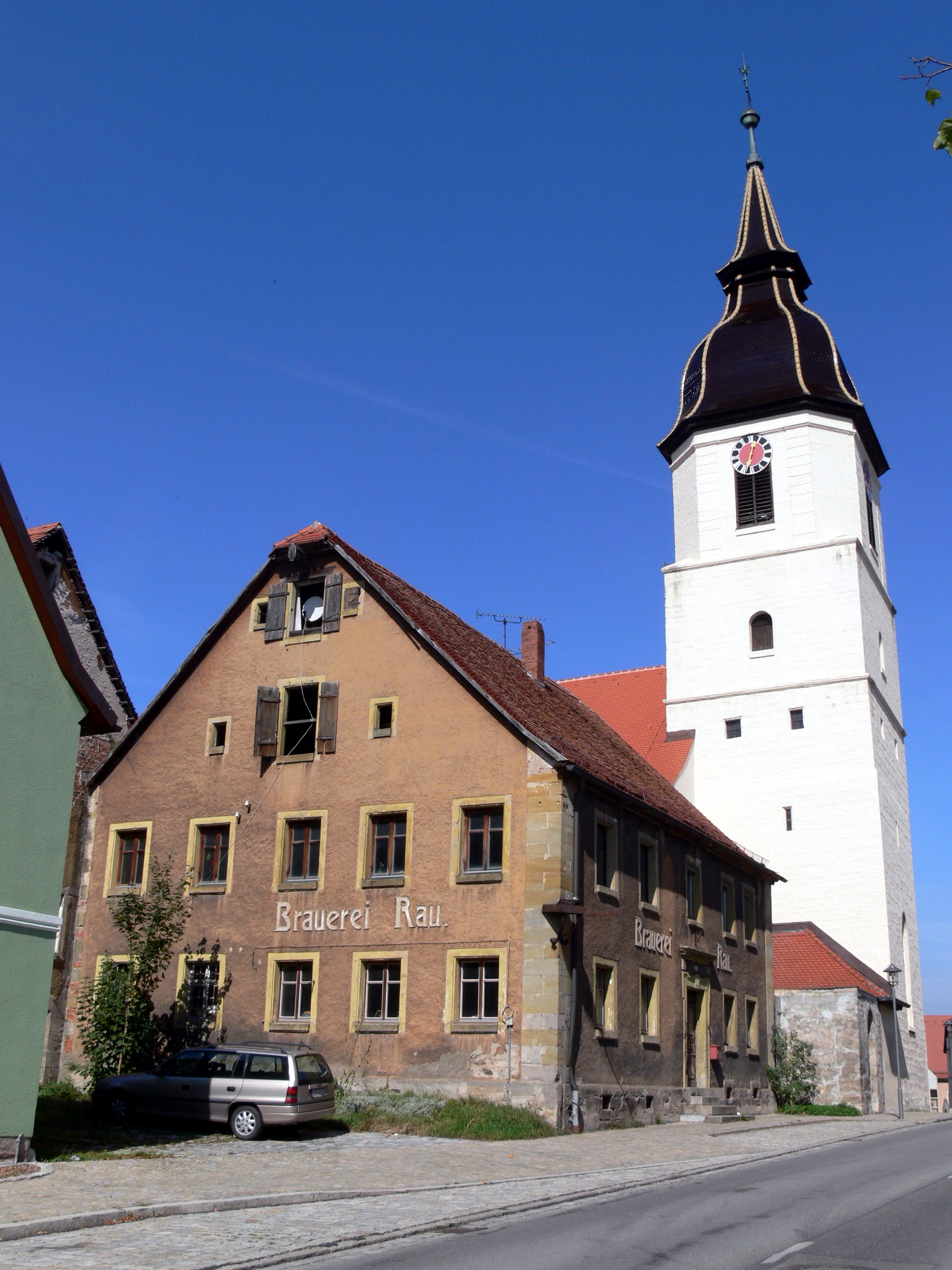 Lehrberg - protestant parish church and old brewery.